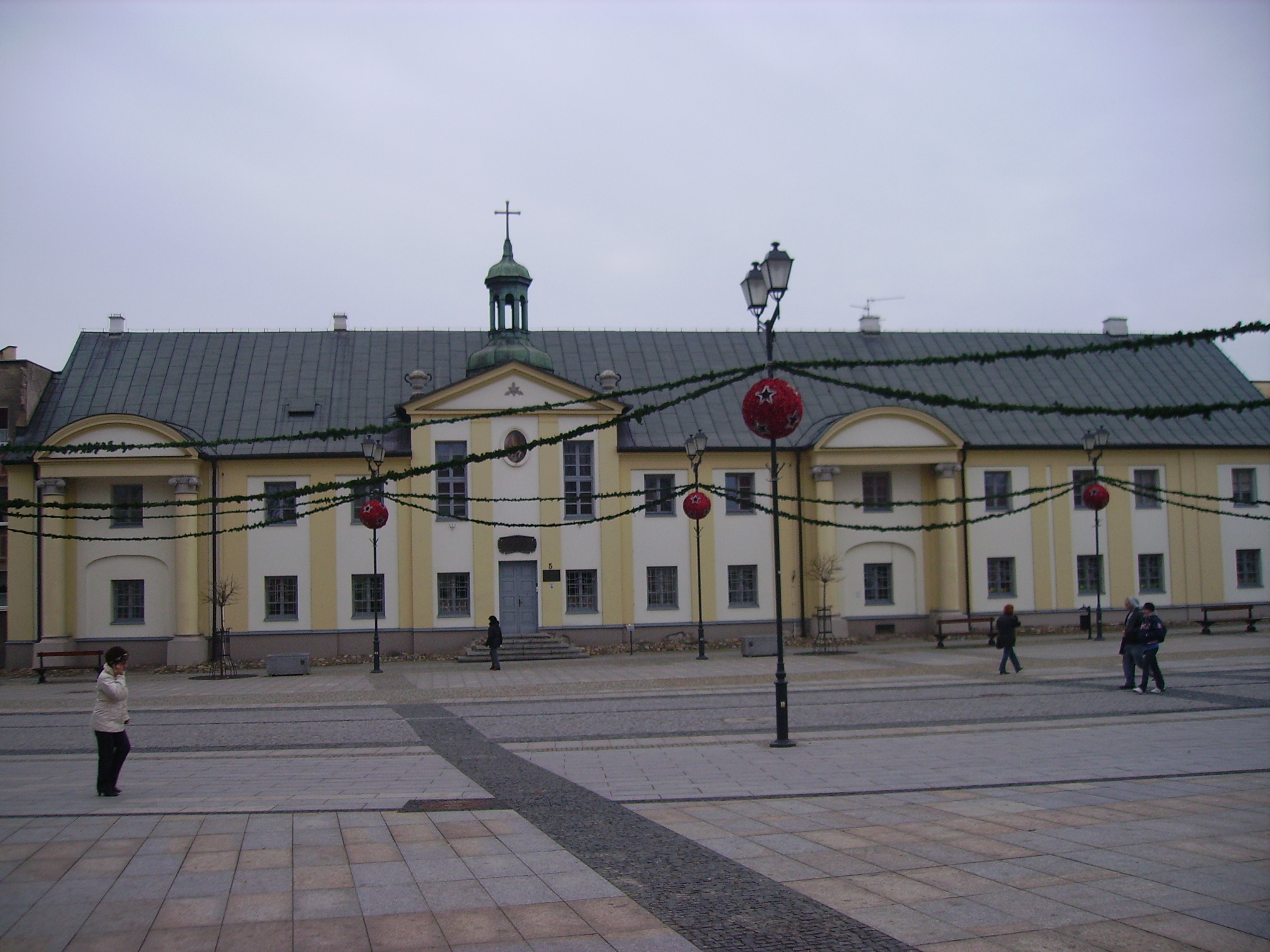 Białystok, Rynek Kościuszki 5 - Daughters of Charity Monastery